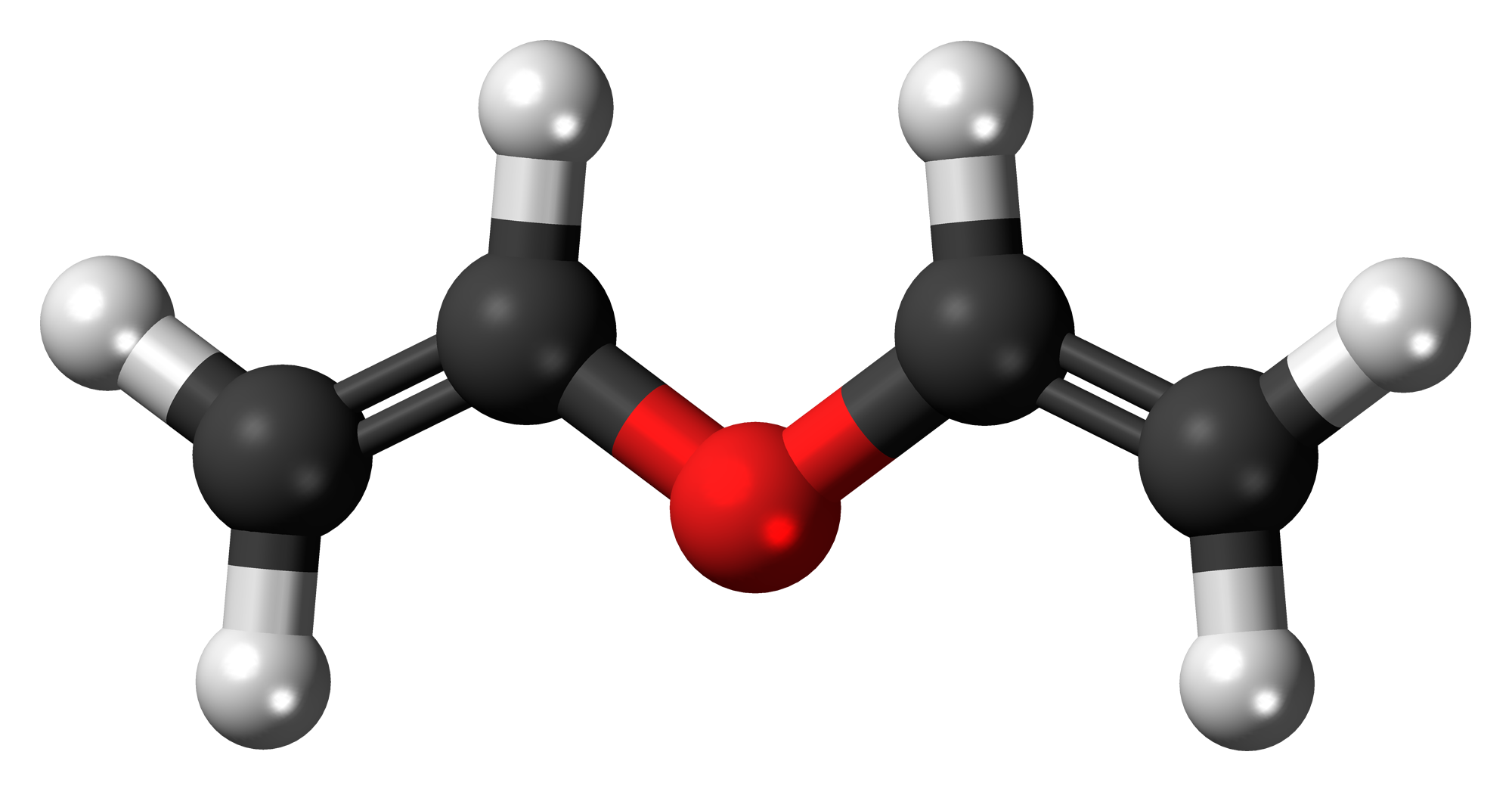 Ball-and-stick model of the divinyl ether molecule, an anesthetic, similar to diethyl ether. Colour code: Carbon, C: black Hydrogen, H: white Oxygen, O: red